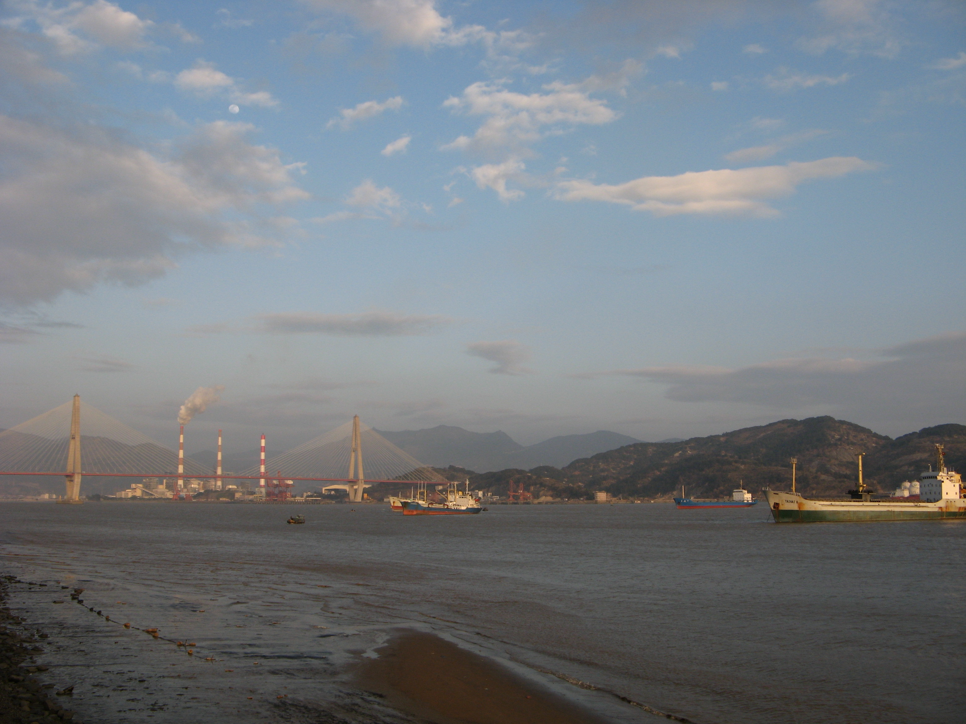 Battlefield of the Battle of Foochow